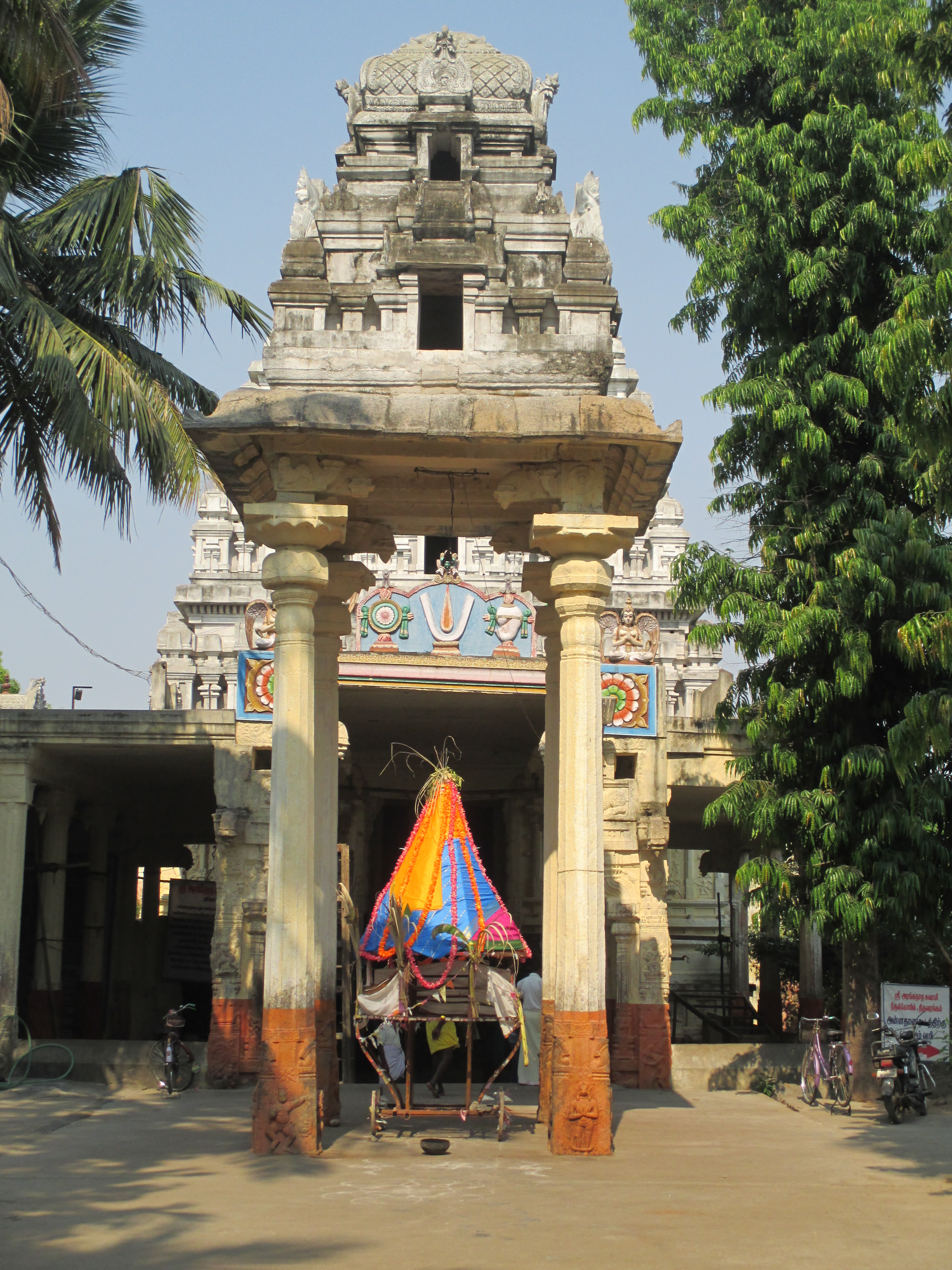 Adhirangam Ranganathaswamy temple